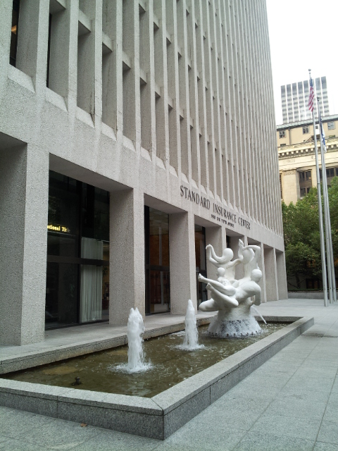 Standard Insurance Center, Portland (2013); Sculpture "The Quest" (1970) by Count Alexander von Svoboda (born 1929)